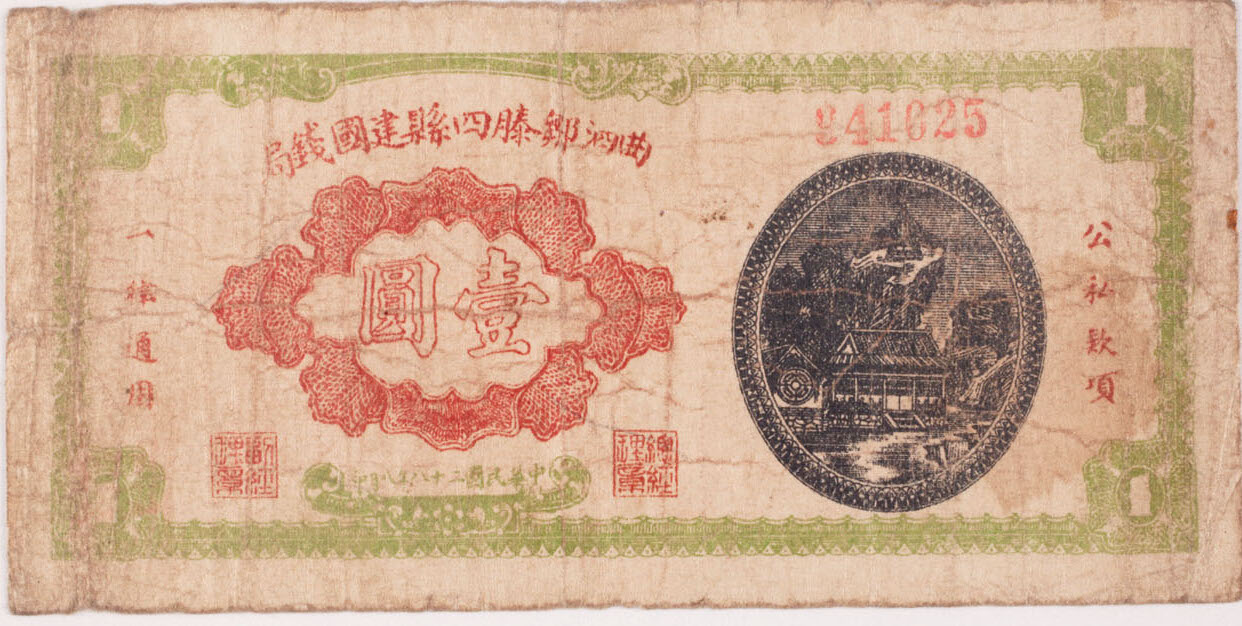 Banknote 1 Yüan, Central Bank of China, 1939 (obv)